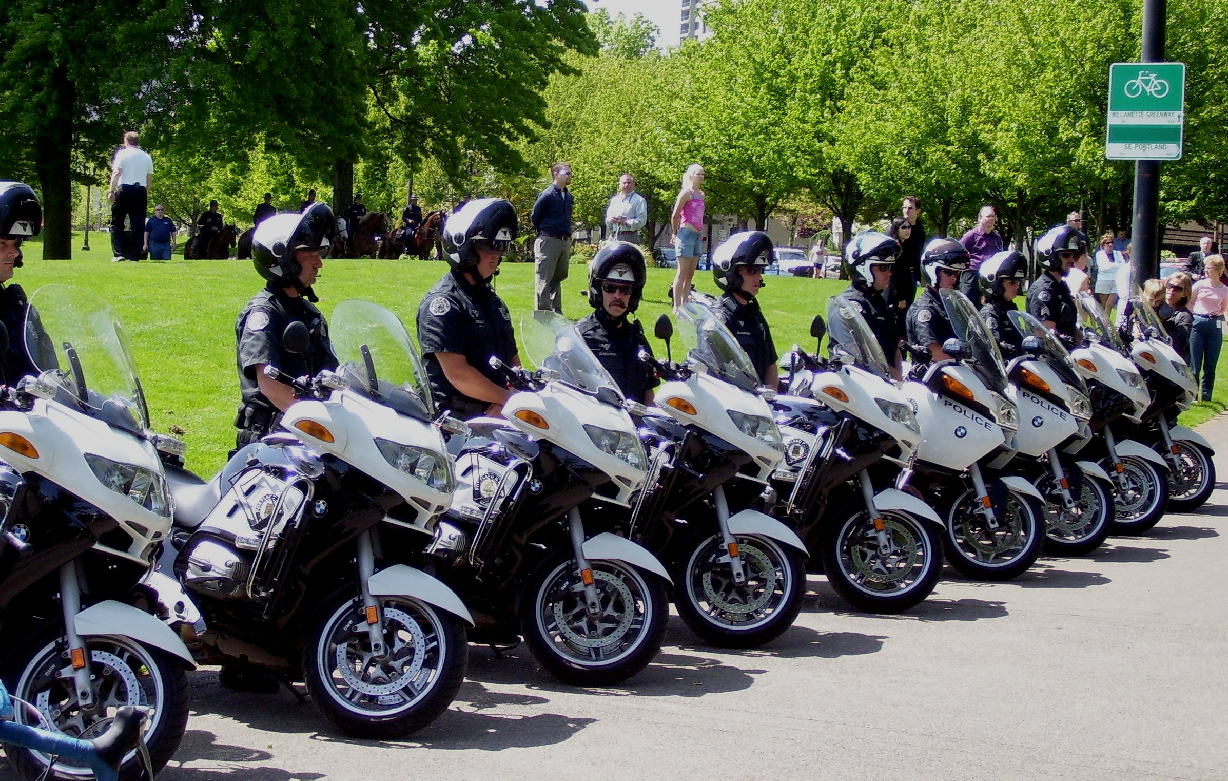 May 14--portland celebrates police memorial day